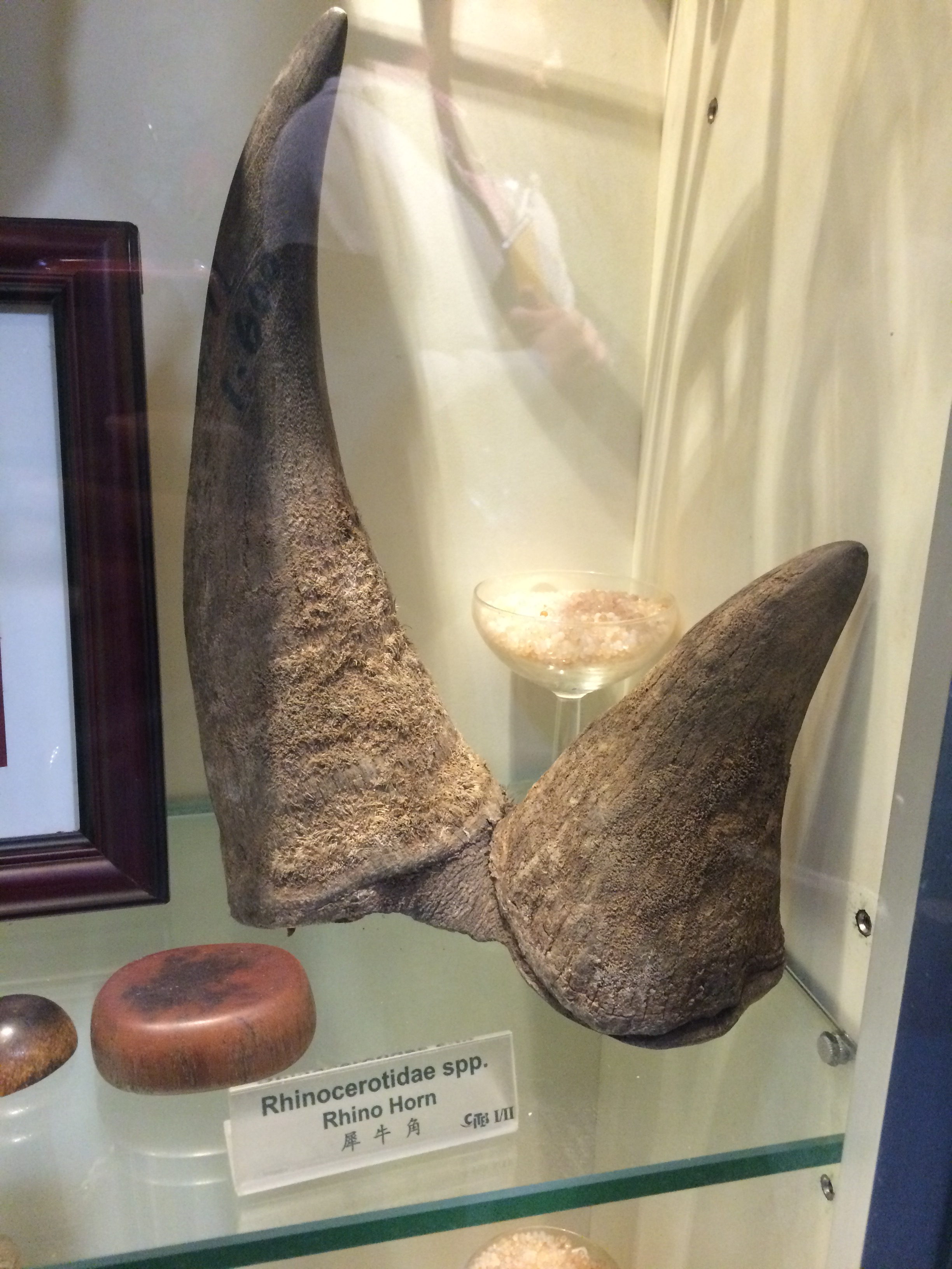 This image is related to a U.S. GAO report: Combating Wildlife Trafficking: Agencies Are Taking Action to Reduce Demand but Could Improve Collaboration in Southeast Asia